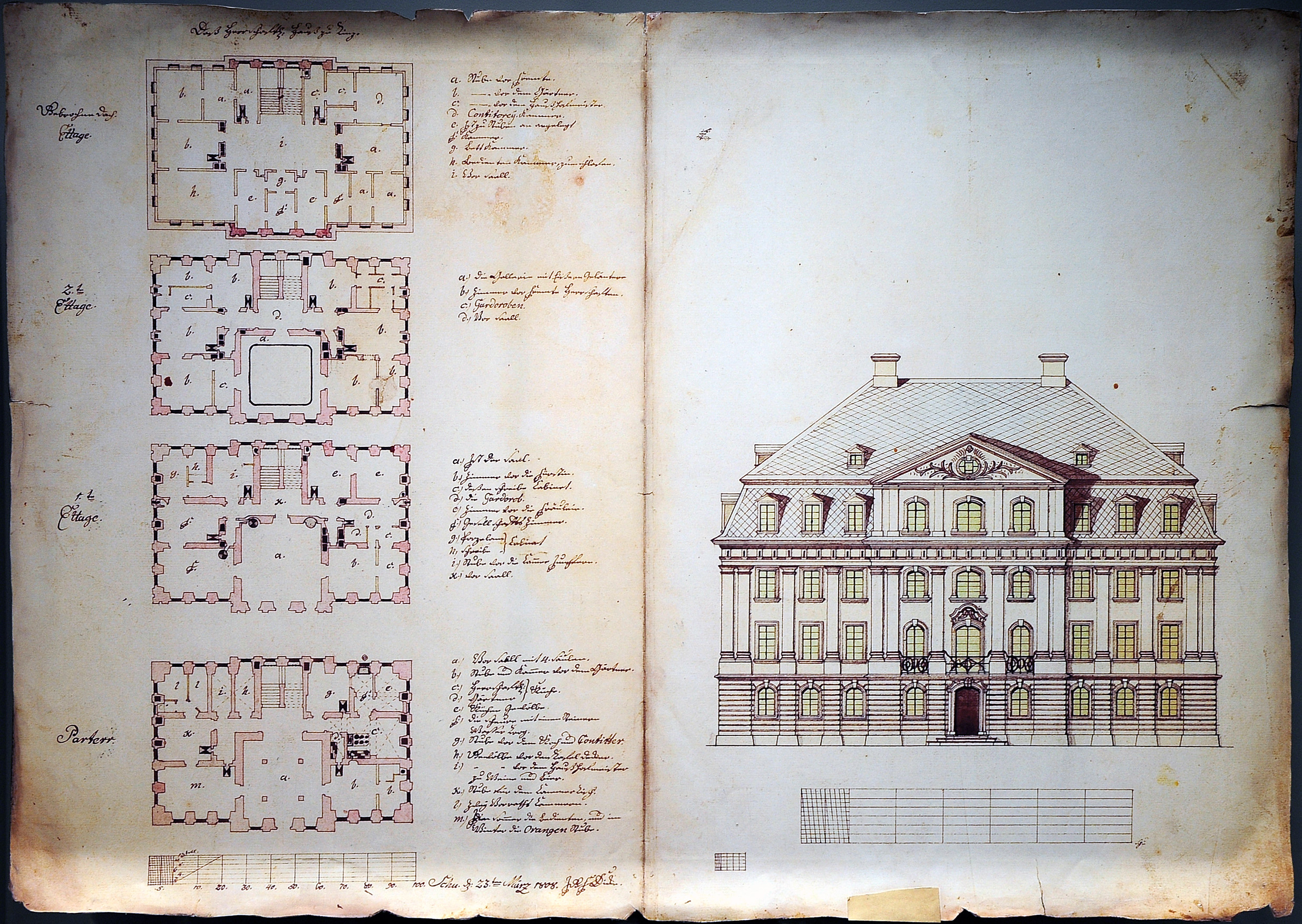 Ground plan of the Castle Tinz in Gera, 1808